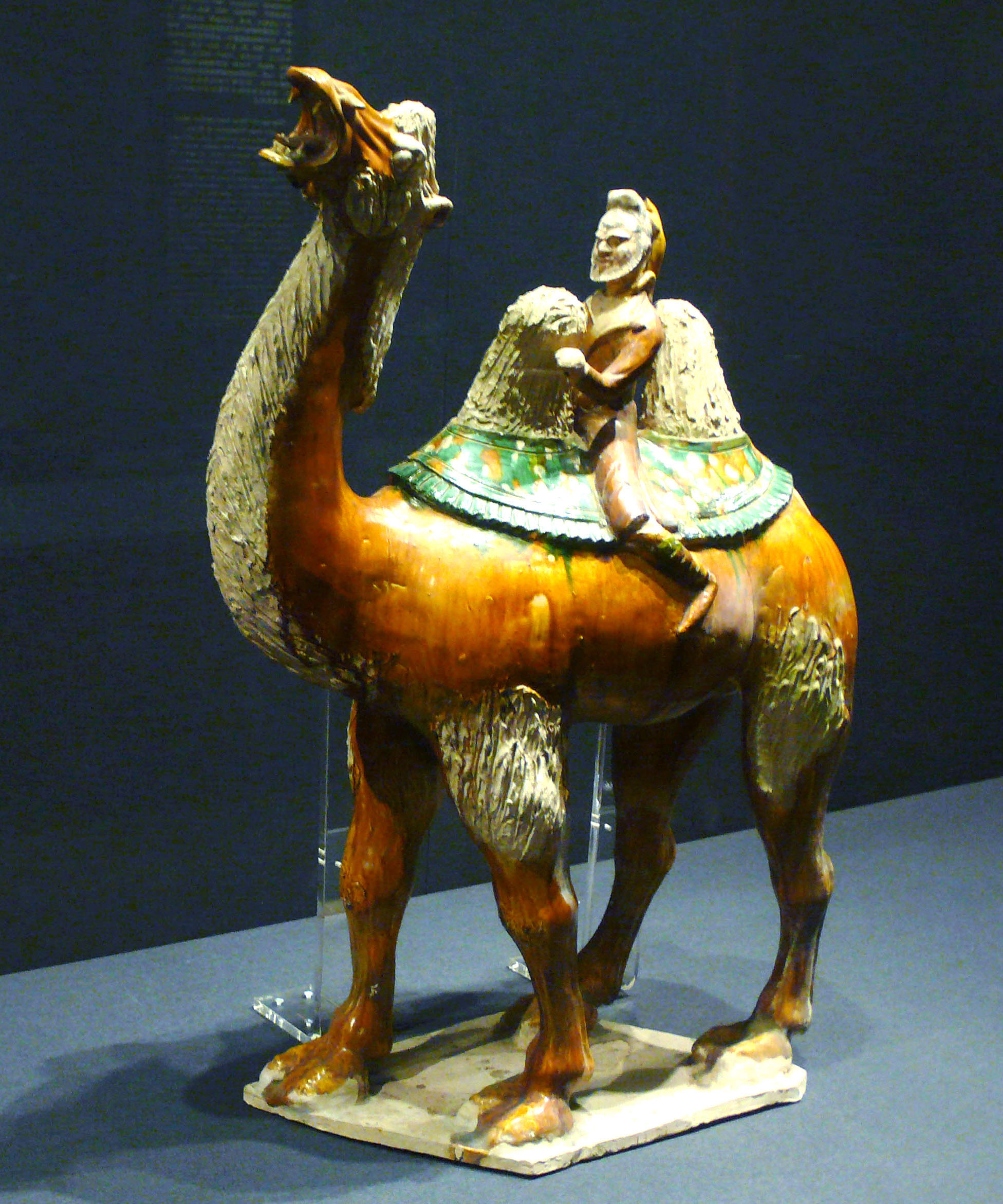 Palace Museum, Beijing. Sancai camel with Sogdian merchant Tang Dynasty, 618–907 A.D.